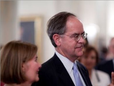 Martha and Jim Cooper at the White House